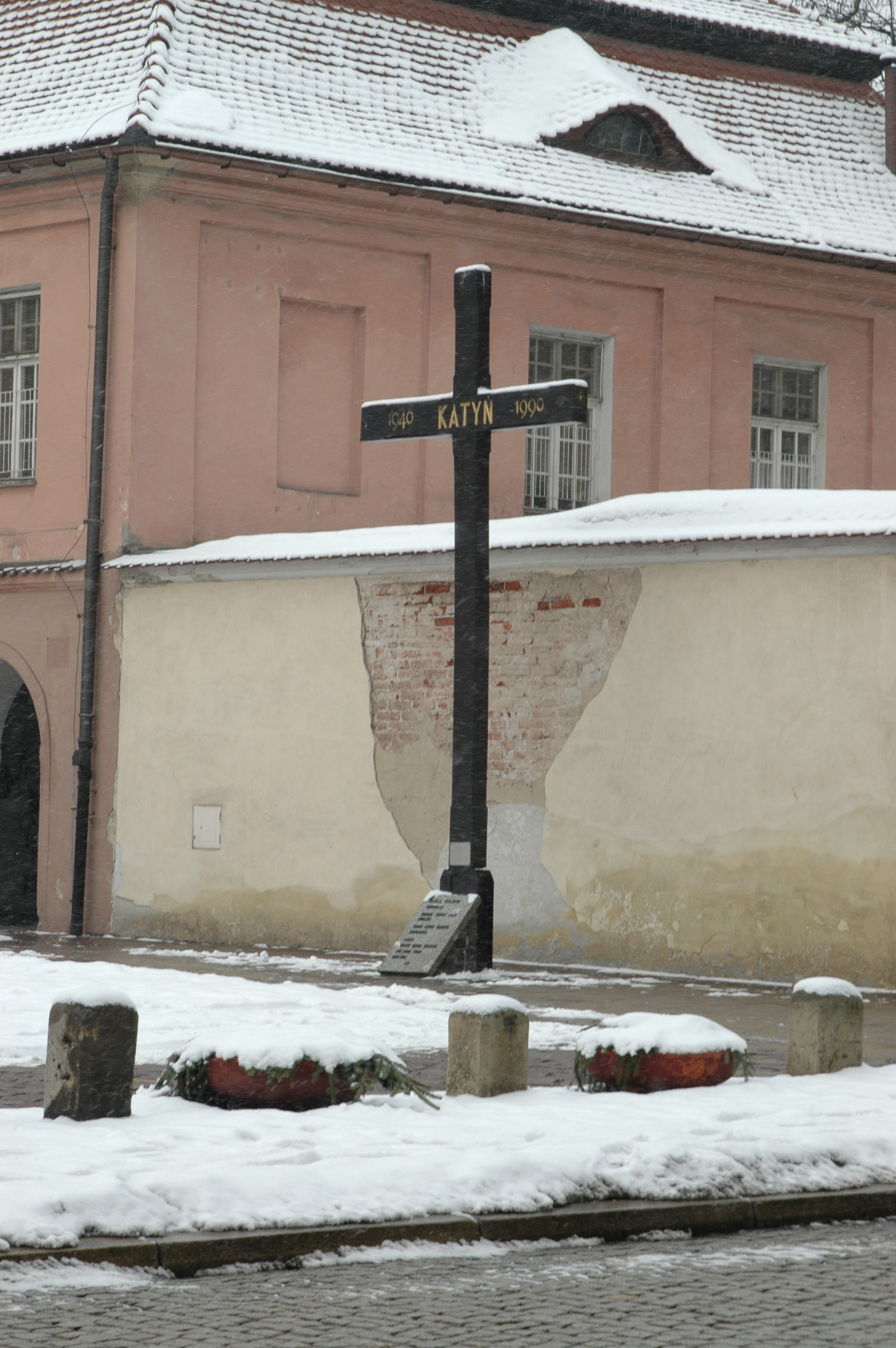 Katyn cross, a commemorative cross erected in Kraków in front of the Wawel